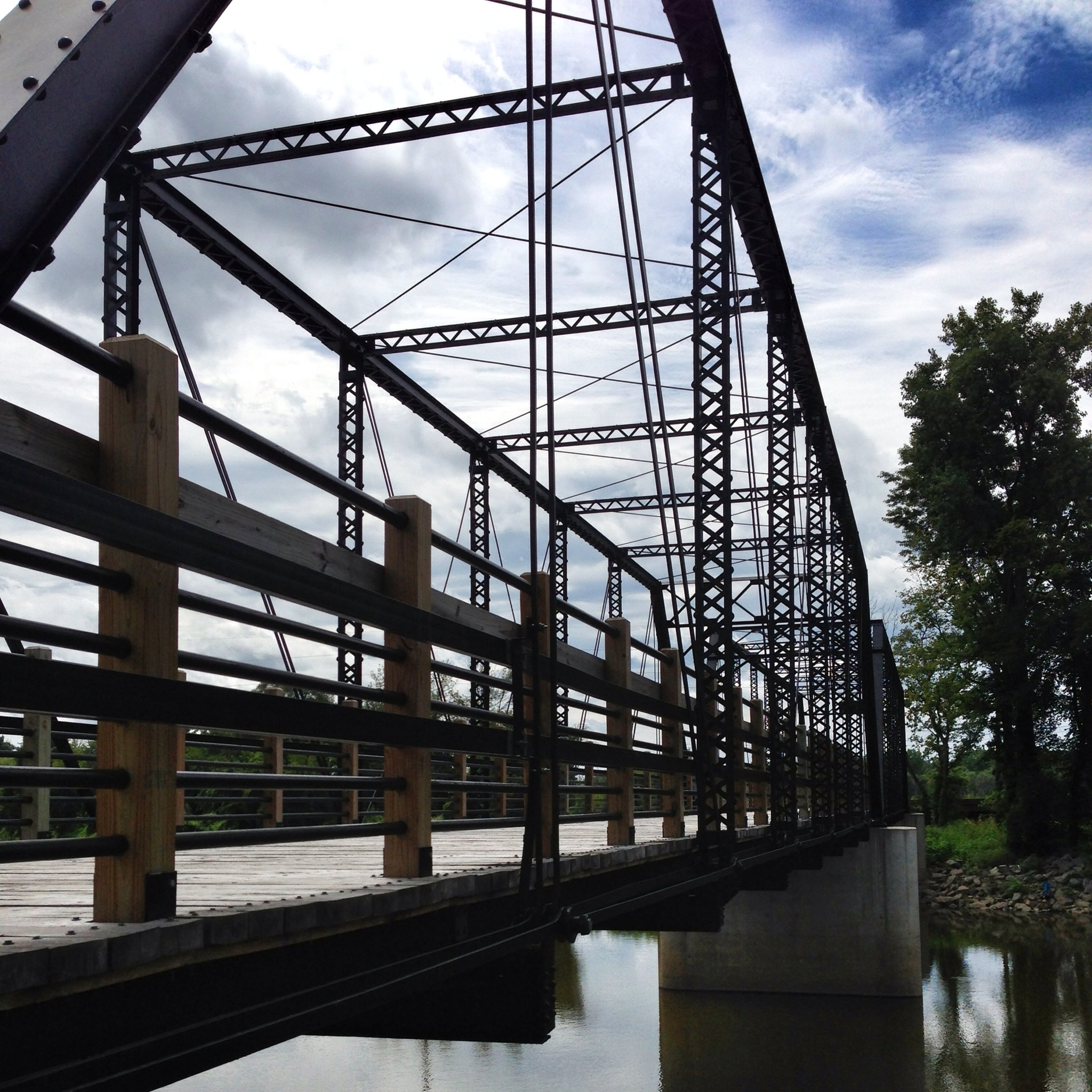 The State Street Bridge located in Bridgeport, Michigan in Saginaw County. Built in 1906 by The Joliet Bridge & Iron Co.